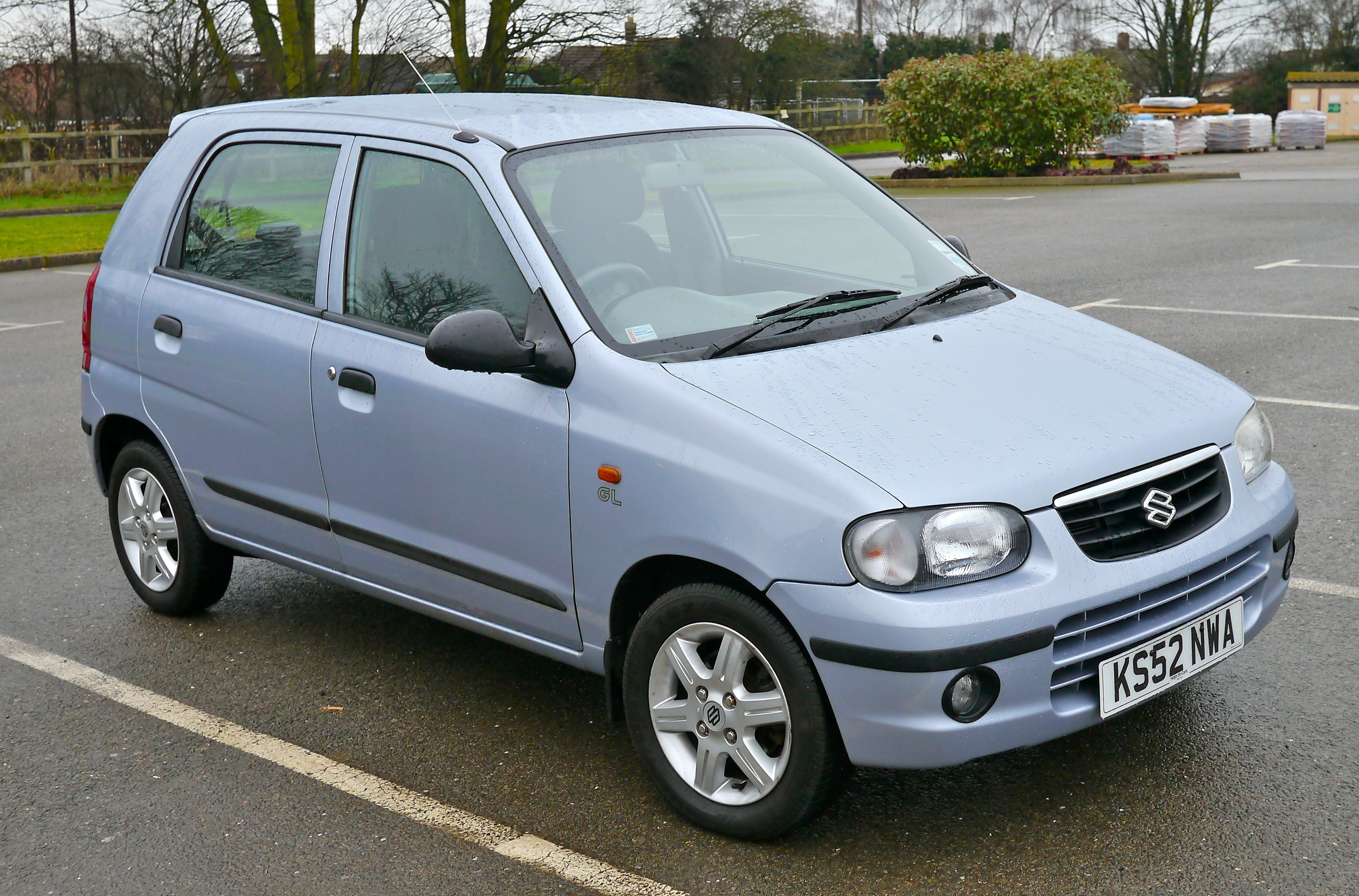 Panasonic G3 20mm Pancake Lens